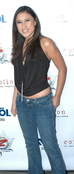 Sakura Scott at Bryn Pryor's Corruption Party, November 11 2006